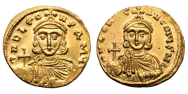 Leo III the Isaurian, with Constantine V, AV Solidus. Constantinople mint. d NO LEO-N PA MUL, crowned facing bust of Leo, holding globus cruciger & akakia d N CONST-ANTINUM, crowned facing bust of Constantine, holding globus cruciger & akakia.